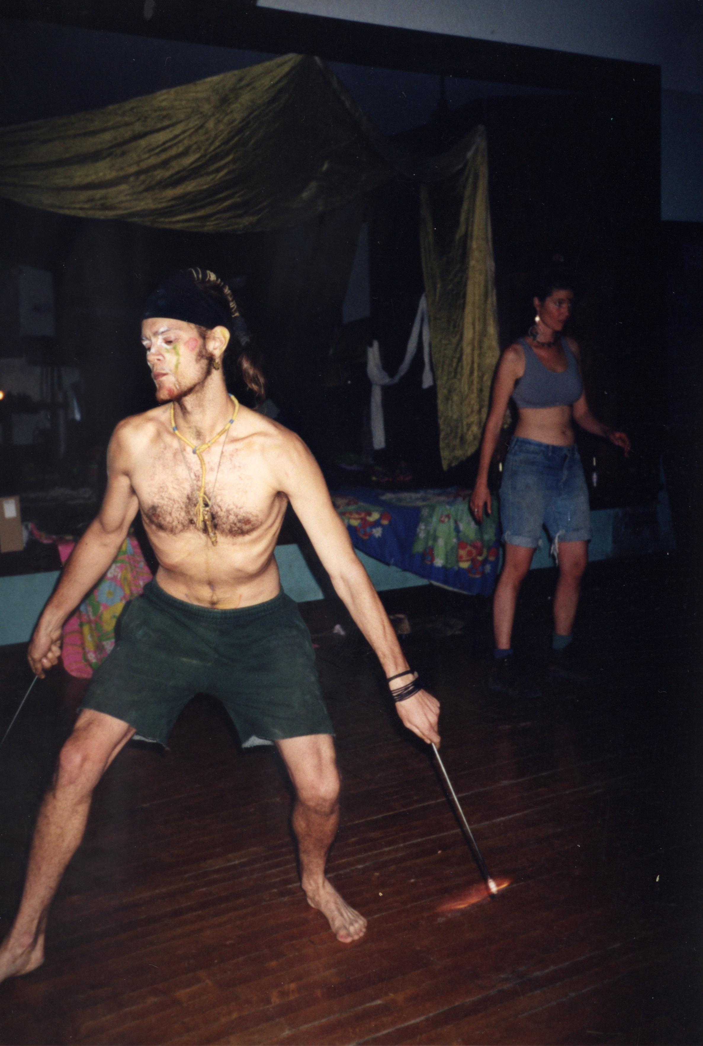 Brad Will playing with fire at Dreamtime in the 90's; photo taken upstairs in the School building.